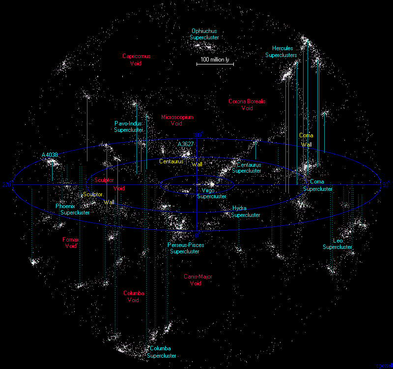 Map of voids and superclusters within 500 million light years from Milky Way